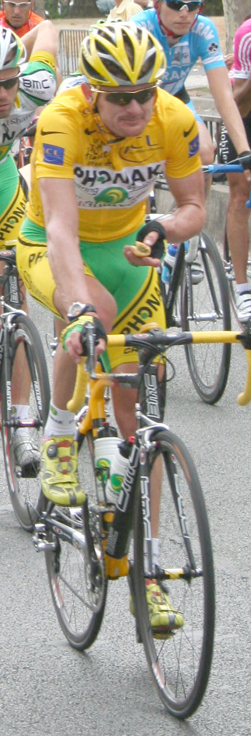 Floyd Landis on Tour de France, July 23 2006